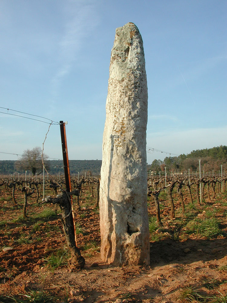 Menhir nammed Peïro Plantado, in Cabasse, Var .